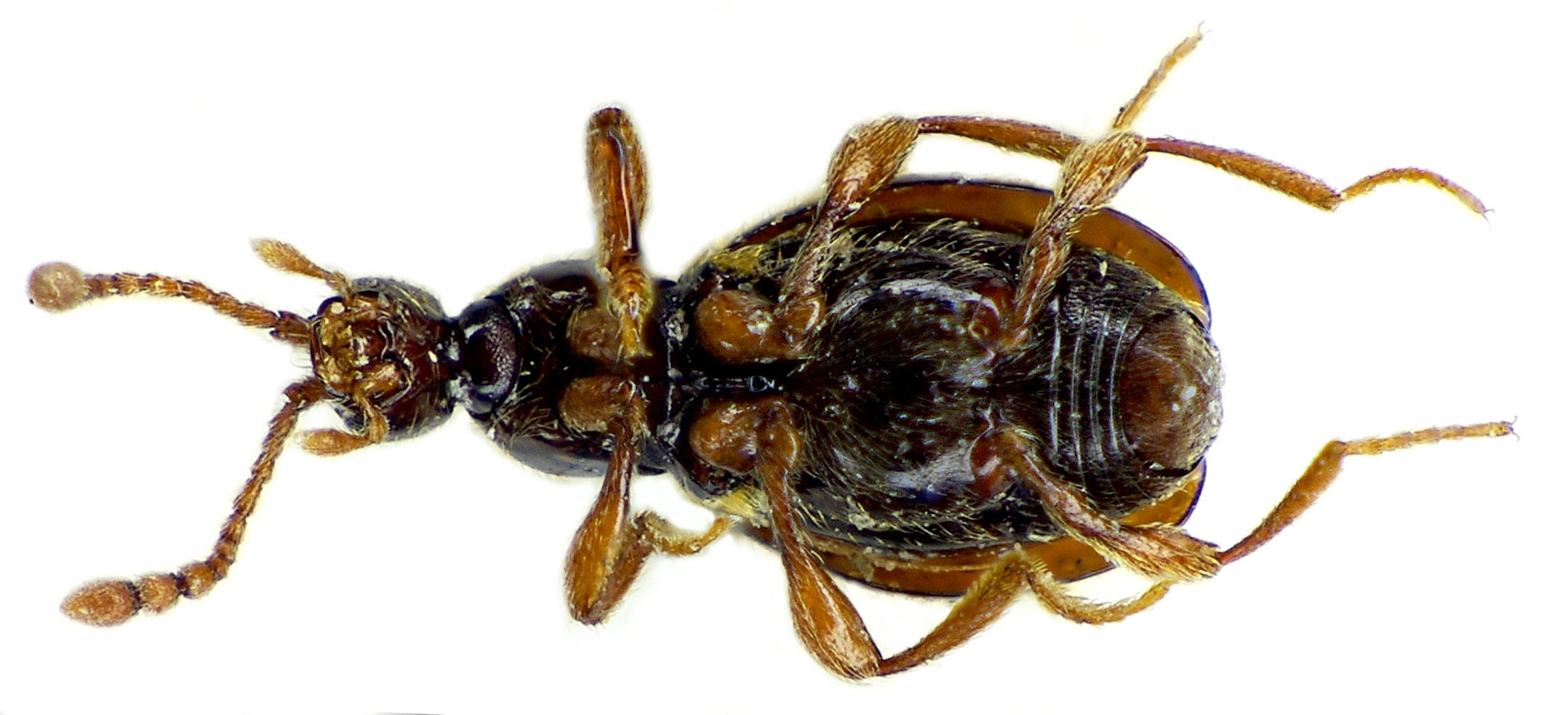 Scydmaenus tarsatus from Hungary coll. 1992-05-09